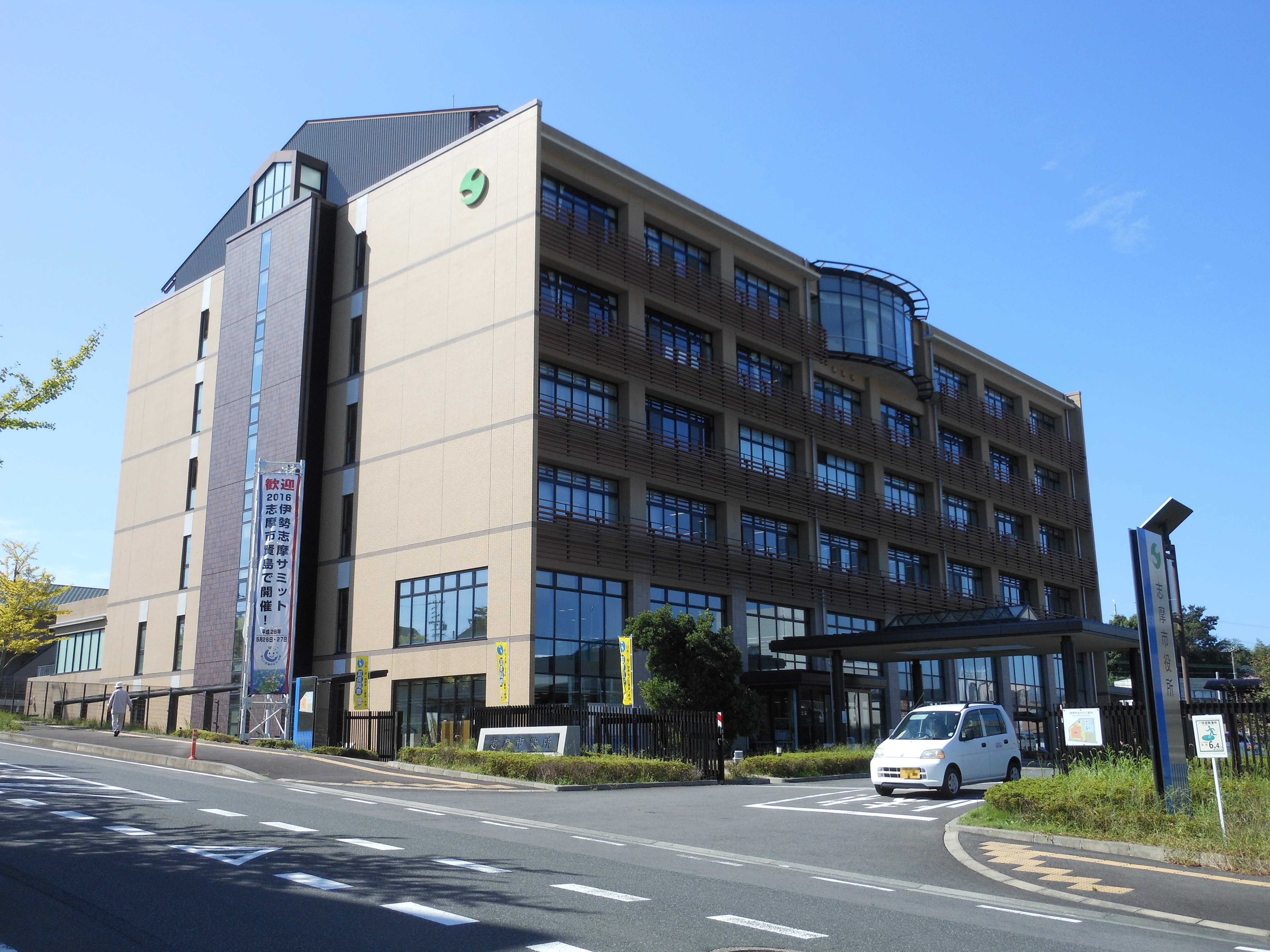 This is a city hall building in japan.